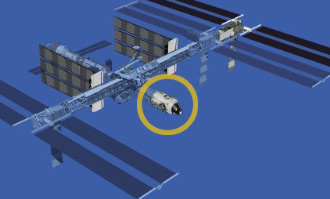 Illustration of the International Space Station after mission STS-120, highlighting the new addition of the Harmony (Node 2) Module. Credit: NASA.